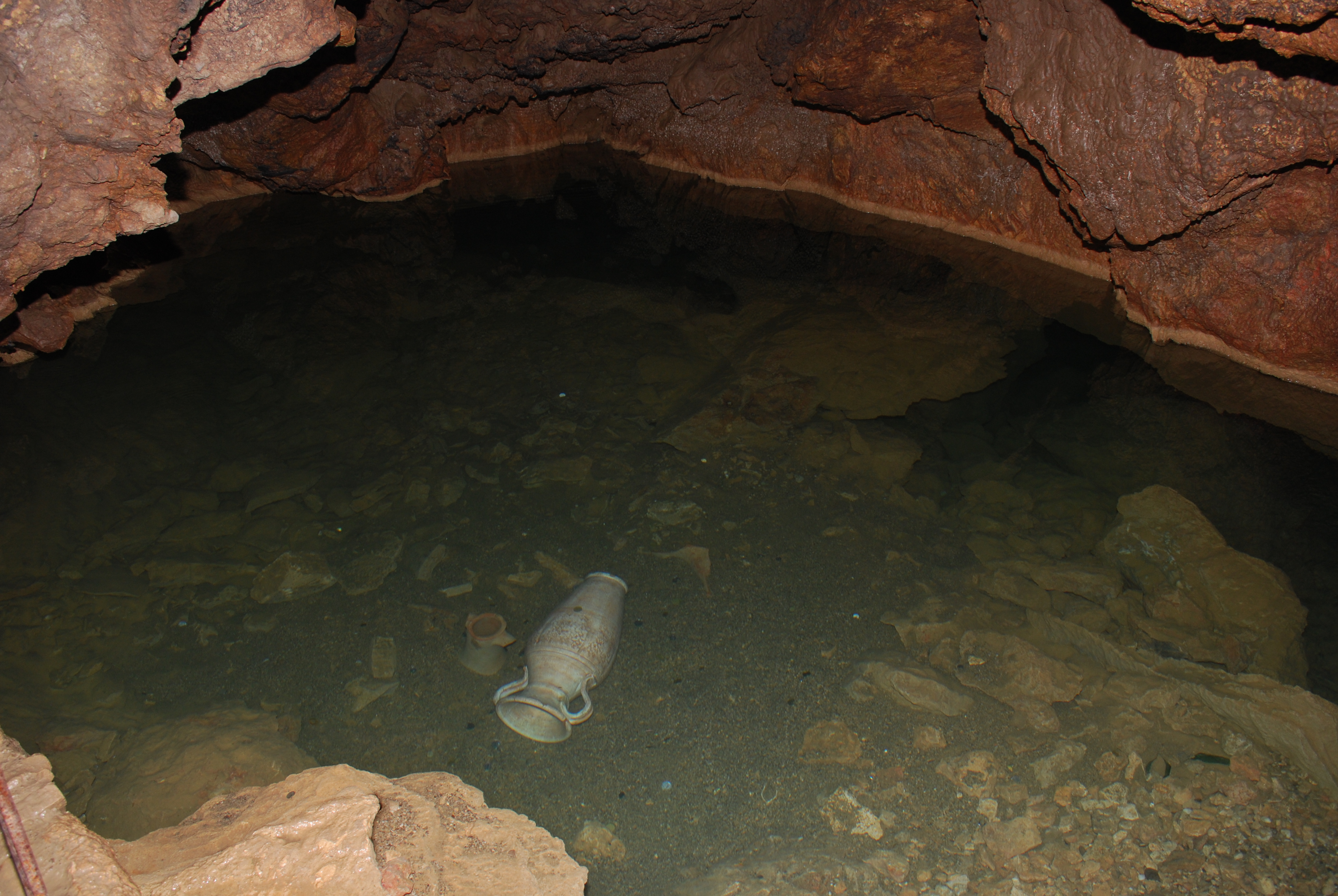 Lake in the Kyzyl-Koba cave.